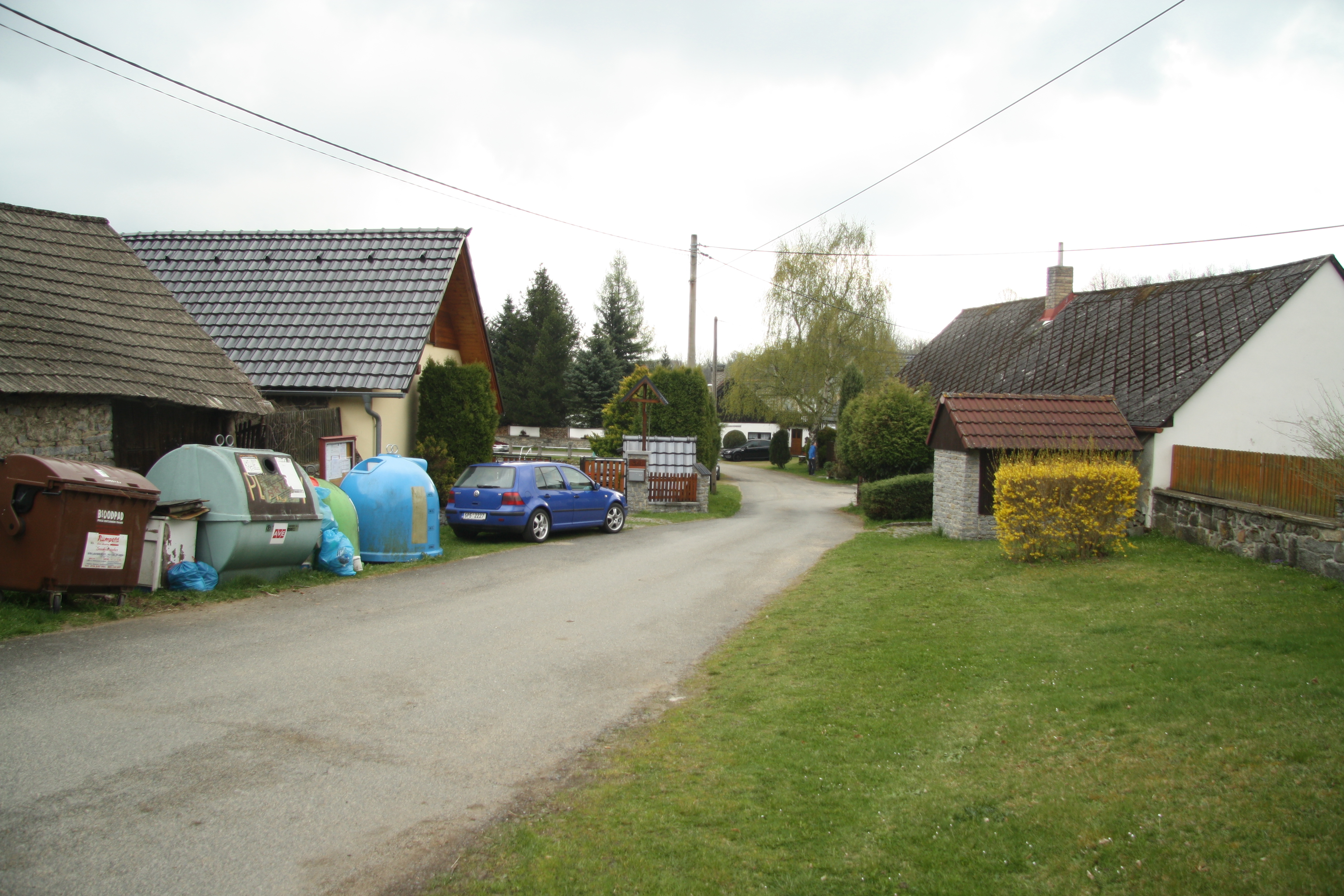 West part of Vlčnov, Zavlekov, Klatovy District.